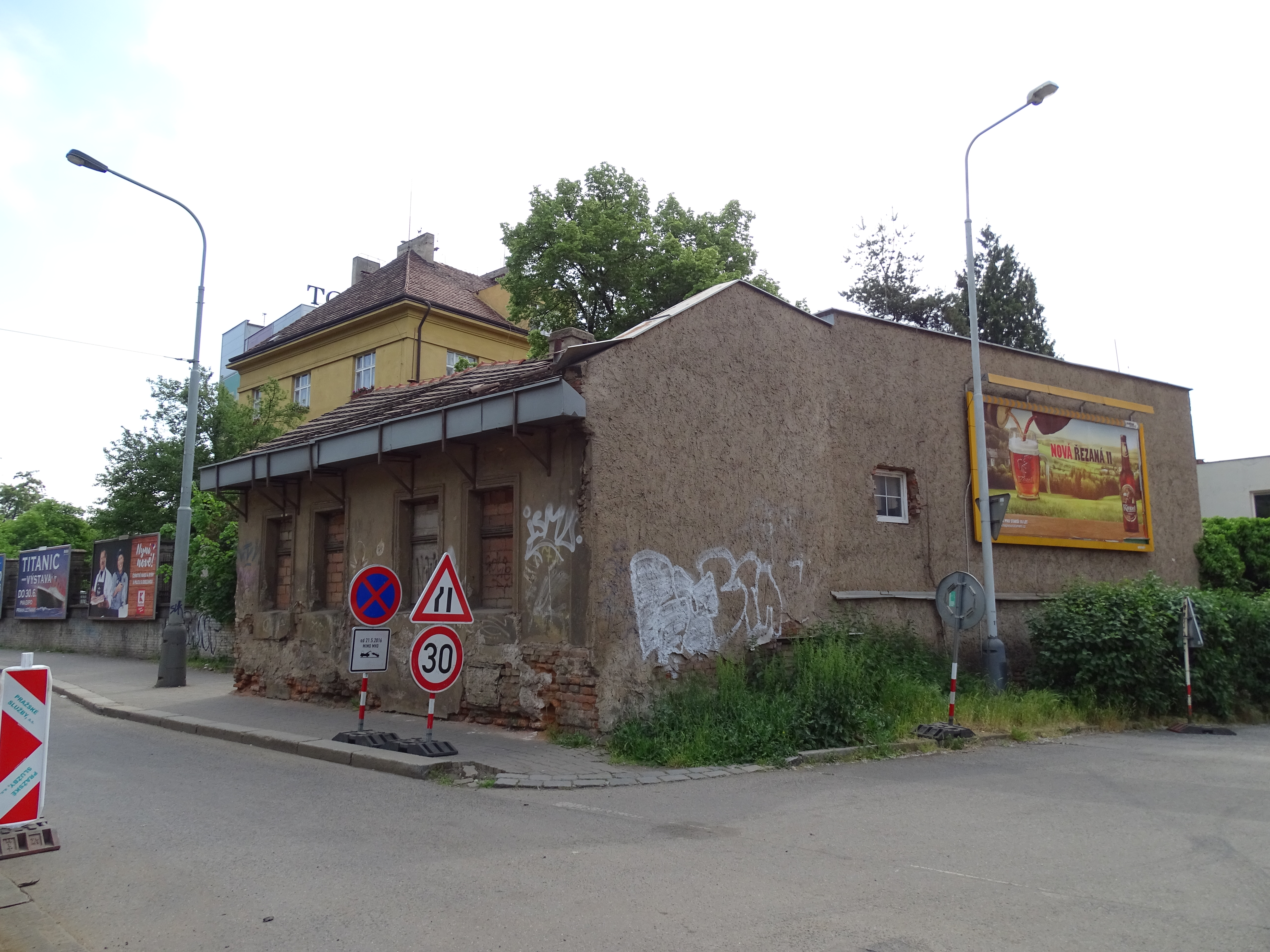 Prague-Michle, Czech Republic. U plynárny 218/28. Birth house of Czech violinist Jan Kubelík.